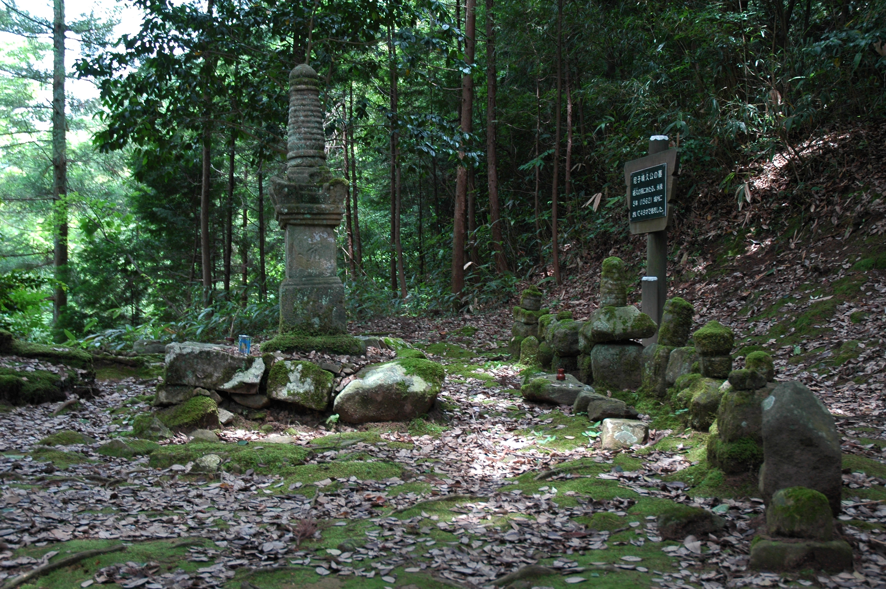 tomb of Amago Haruhisa and his vassals in Hirosecho, Yasugi, Shimane, Japan